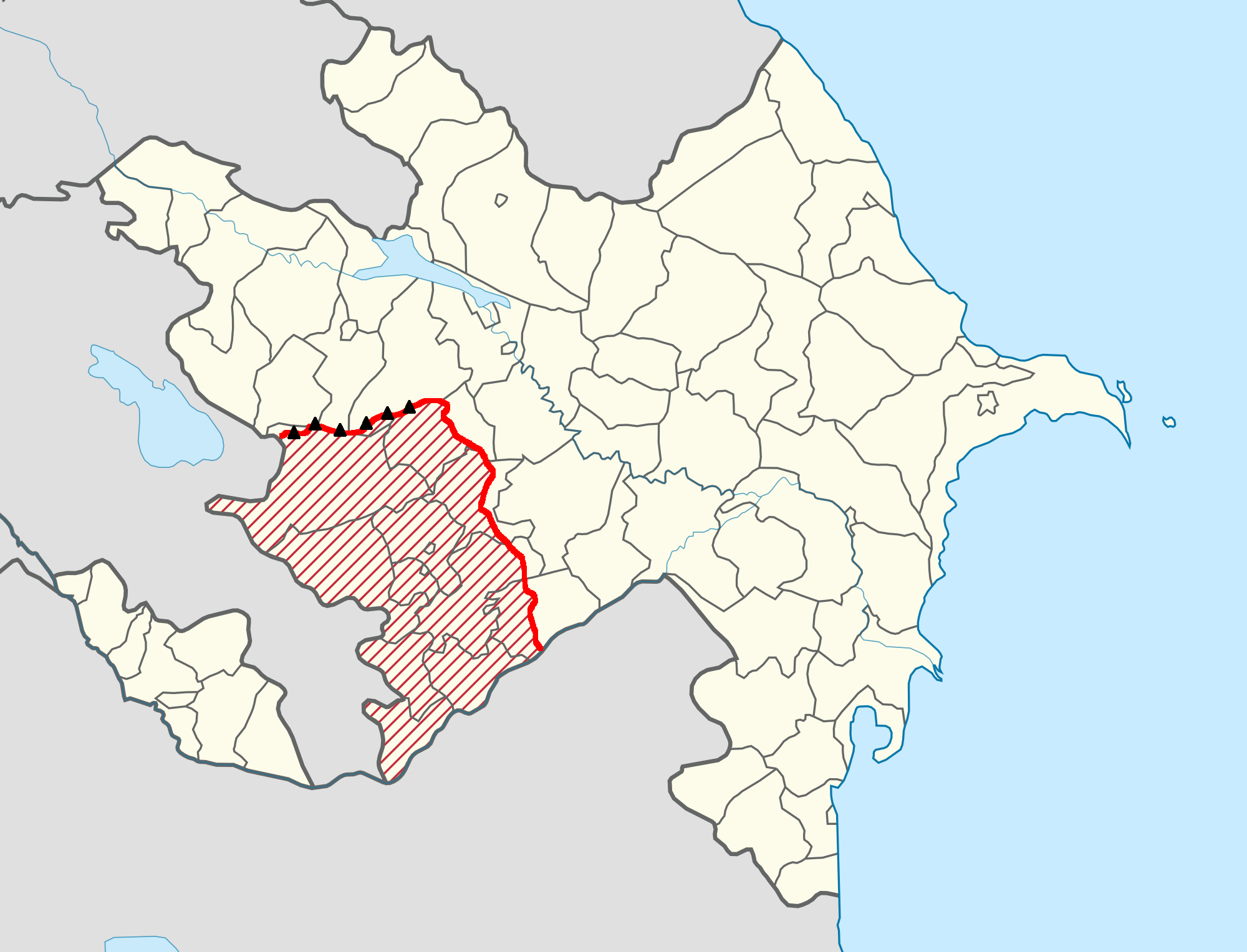 Nagorno-Karabakh line of contact source